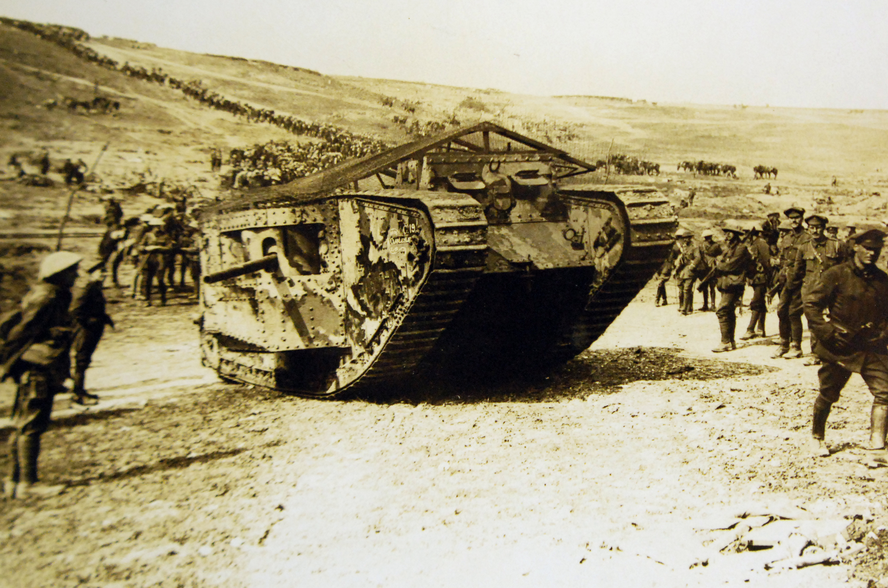 Lot-7882-5: British Activities, WWI. One of the armored tanks on the battlefield, possibly a Mark I tank. Courtesy of the Library of Congress. (2016/07/29).